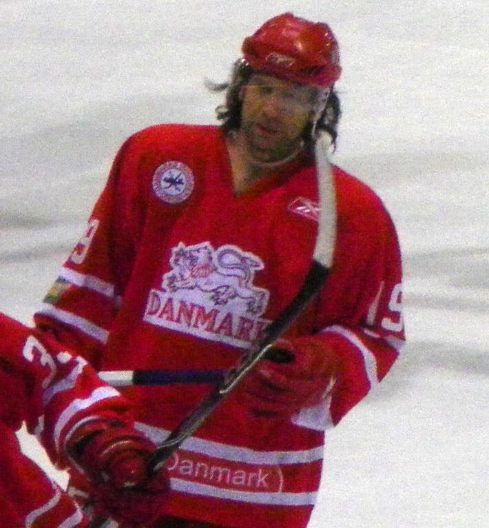 Cropped photo of danish ice hockey player Kim Staal. Photo has been brightened up a bit in Photoshop.